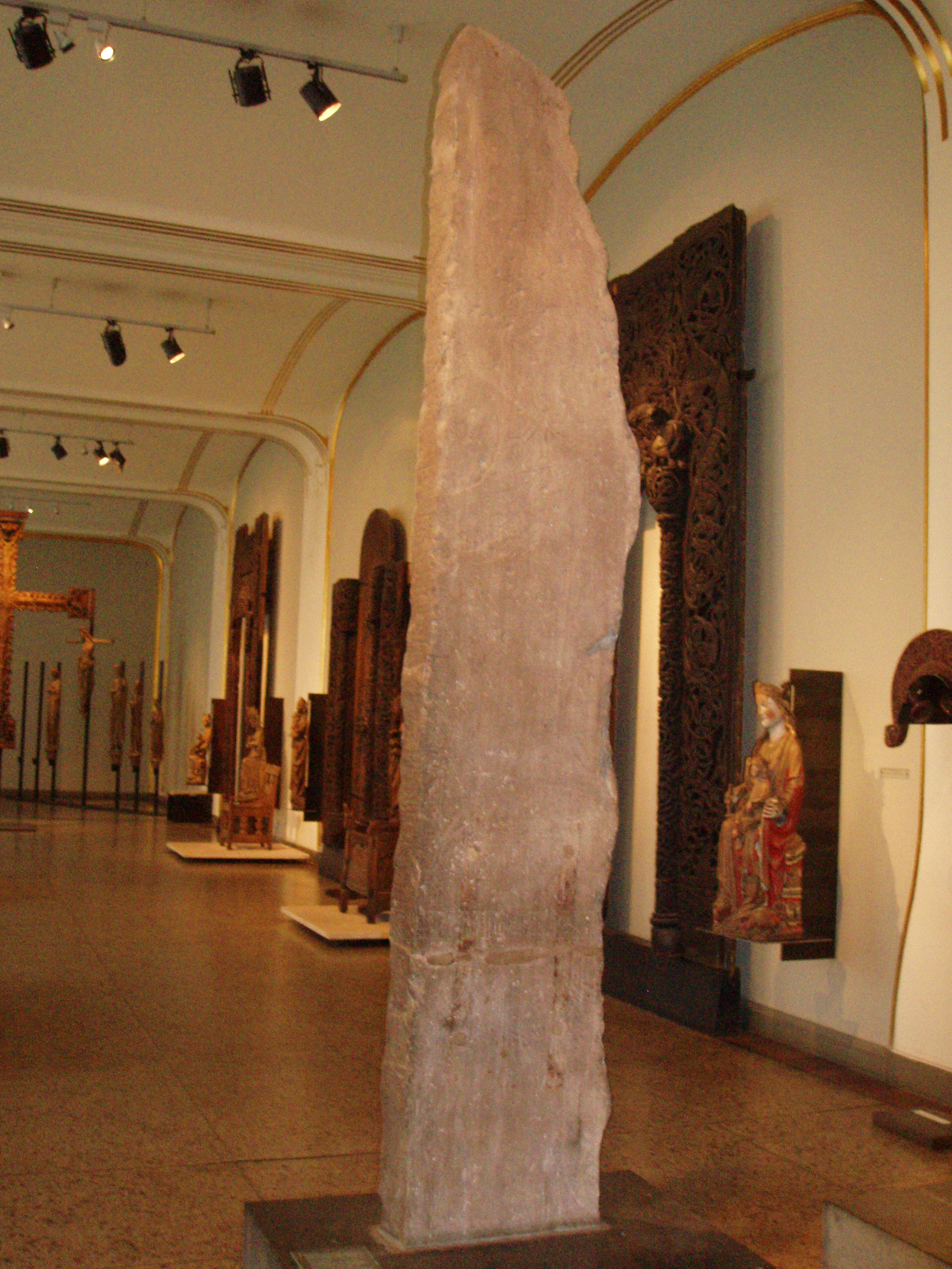 One side of the Alstad runestone as displayed in the Museum of Cultural History in Oslo, Norway. The stone was discovered in Alstad, Toten, Oppland, Norway. The Alstad stone is according to the object display dated to ca. 1000 CE. The stone features both runic inscriptions and ornamentation/images.